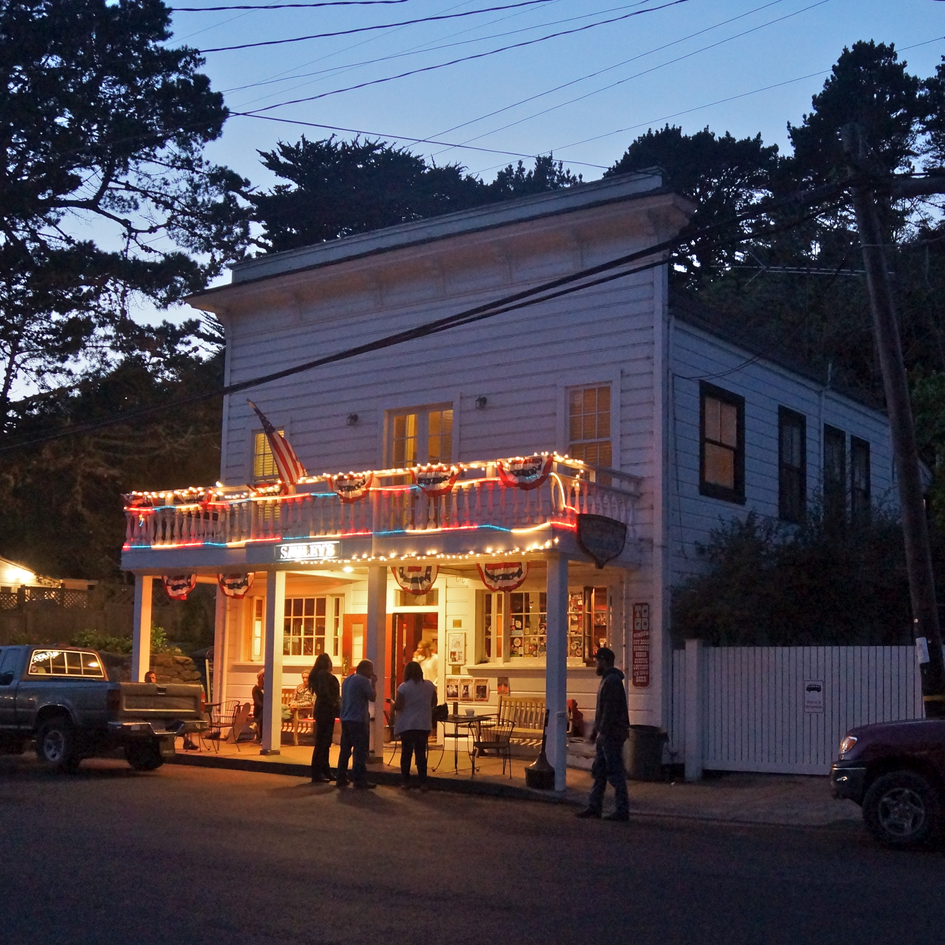 California (Bolinas), United States: The Smiley's at night